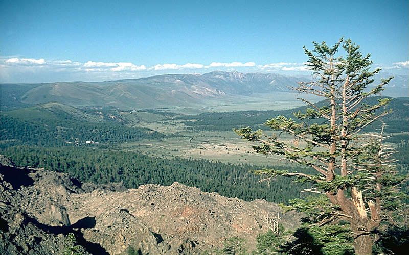 View is toward the east across the northern part of Long Valley Caldera, California, United States. The caldera rim extends east from the Glass Creek flow (lower left) to Bald Mountain and Glass Mountain in the far distance. Lookout Mountain is behind the tree.